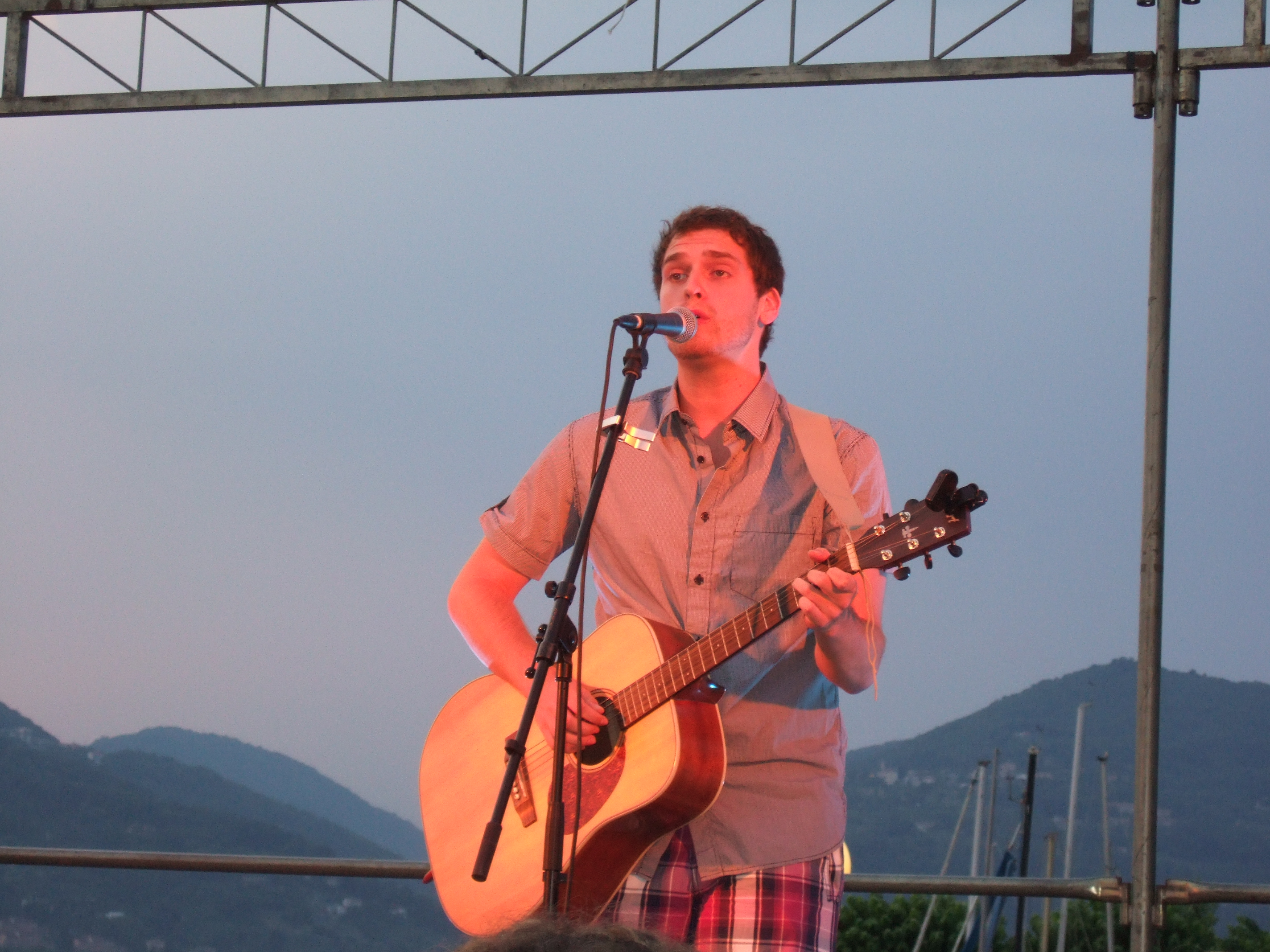 The Belgian singer Tom Dice in Ranco on Lake Maggiore, Provincia di Varese, Italy.